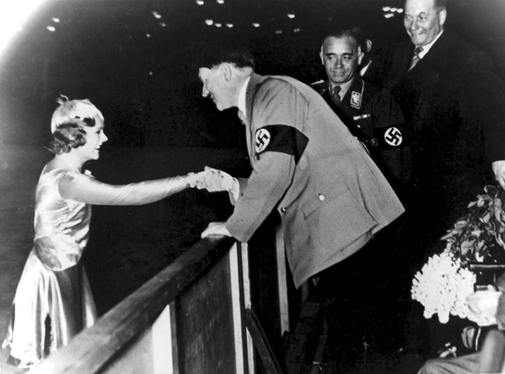 Sonja Henie, Hitler, Göring at Berlin Olympics 1936